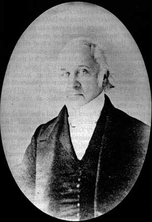 P.E.I. Heritage Foundation Collection, Public Archives of Prince Edward Island, Acc. No. 2702/114.